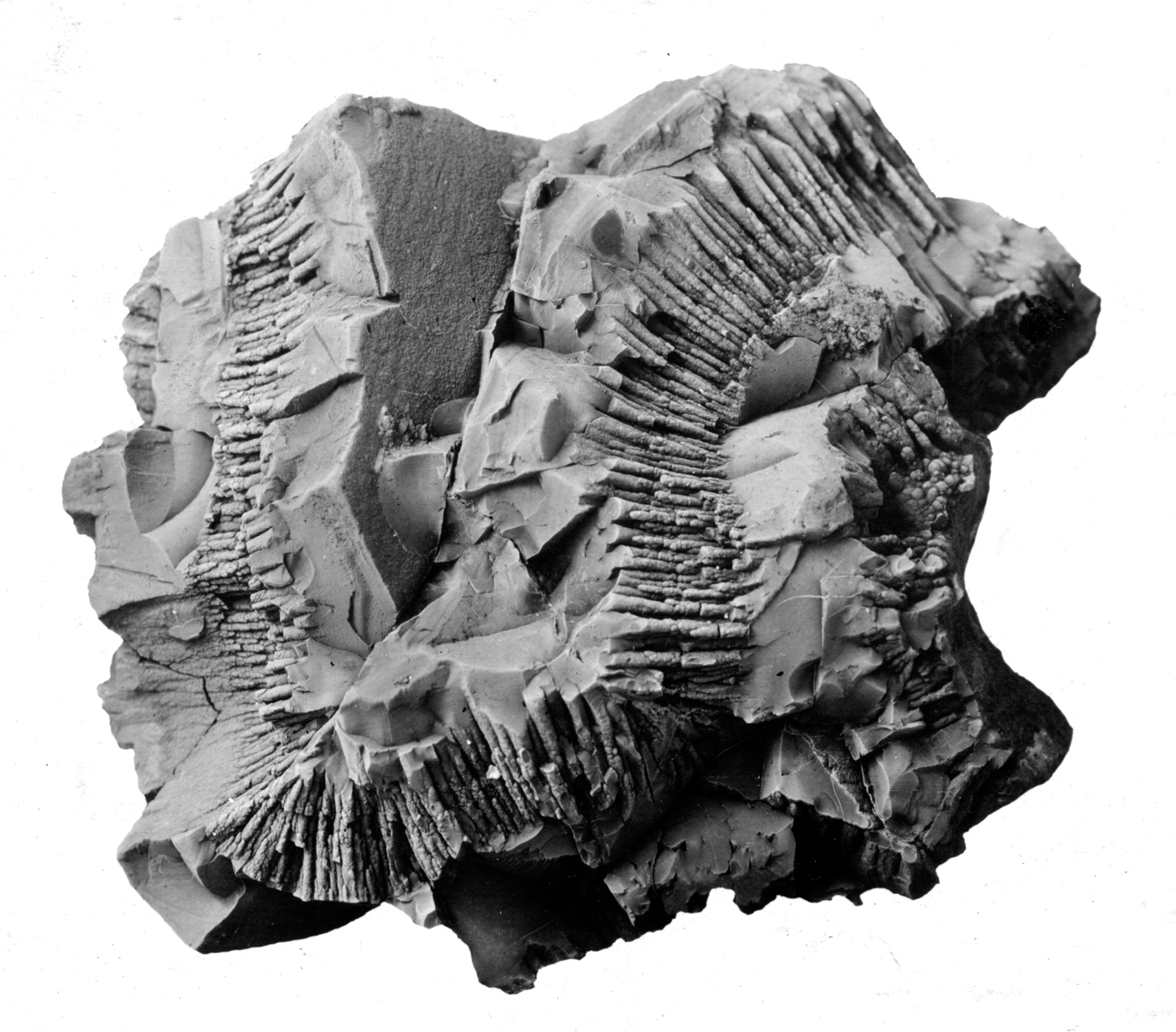 Pyrolusite and wad - B, earthy compact wad traversed by a sigmoid band that is of similar composition but has a rod like comb structure and radiate arrangement (the wad apparently is the process of changing to a compact and rod like psilomelane), from Doe Valley mine. Johnson County, Tennessee 1918. Plate 9-B in U.S. Geological Survey Bulletin 737. 1923.